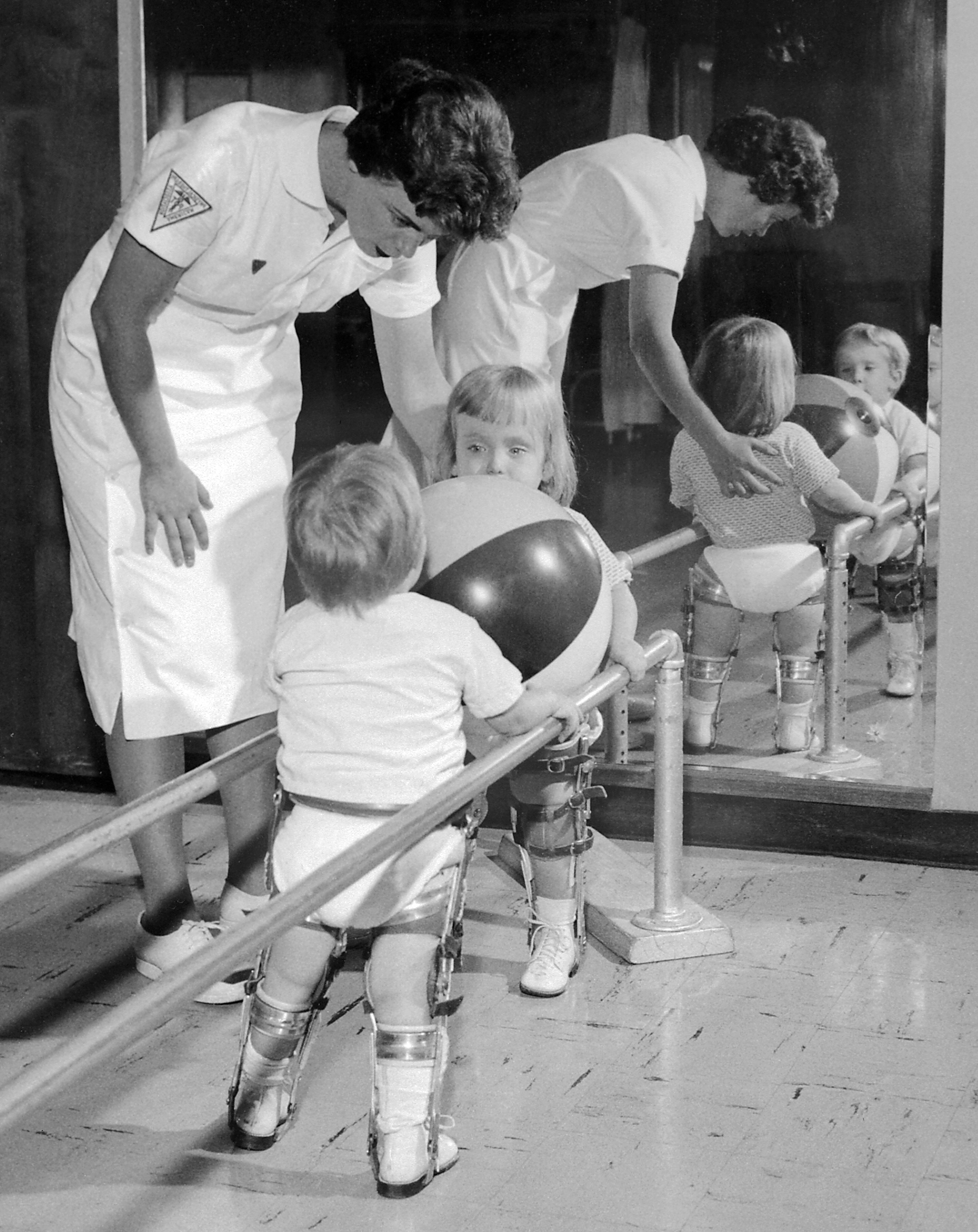 This physical therapist is assisting two polio-stricken children holding on to a rail while they exercise their lower limbs. In the early 1950s there were more than 20,000 cases of polio each year. After the polio vaccination was introduced in 1955 that figure dropped to about 3,000 per year by 1960.